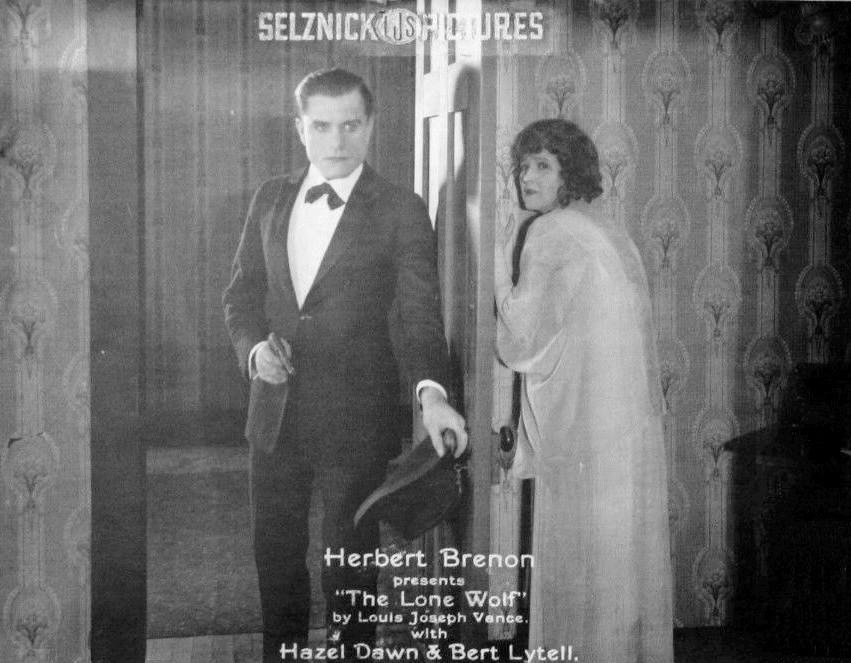 Lobby card for the American film The Lone Wolf (1917); the film is thought to be lost.